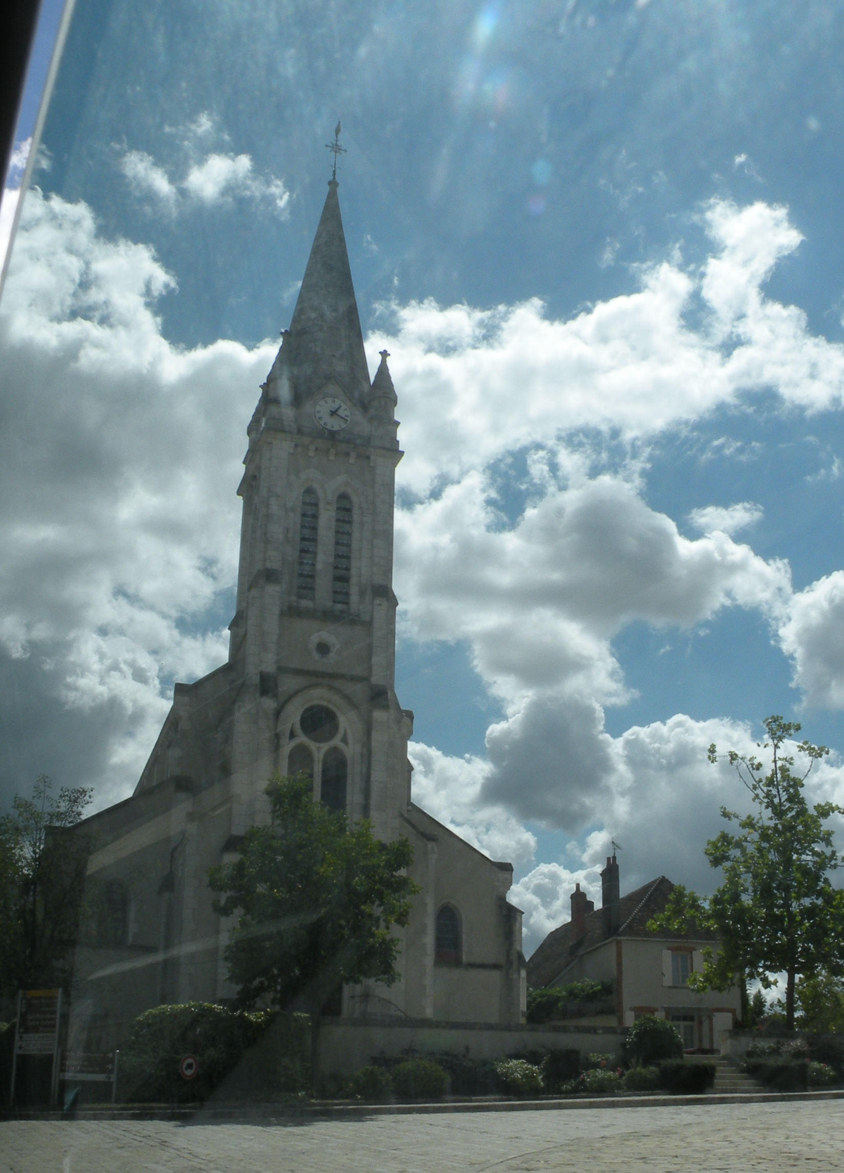 Church of Dampierre-en-Burly.